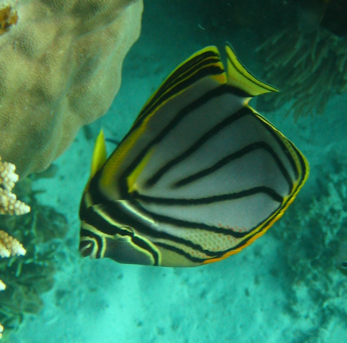 Diving, Pemba, Tanzania